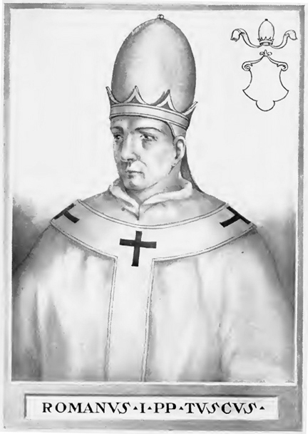 This illustration is from The Lives and Times of the Popes by Chevalier Artaud de Montor, New York: The Catholic Publication Society of America, 1911. It was originally published in 1842.